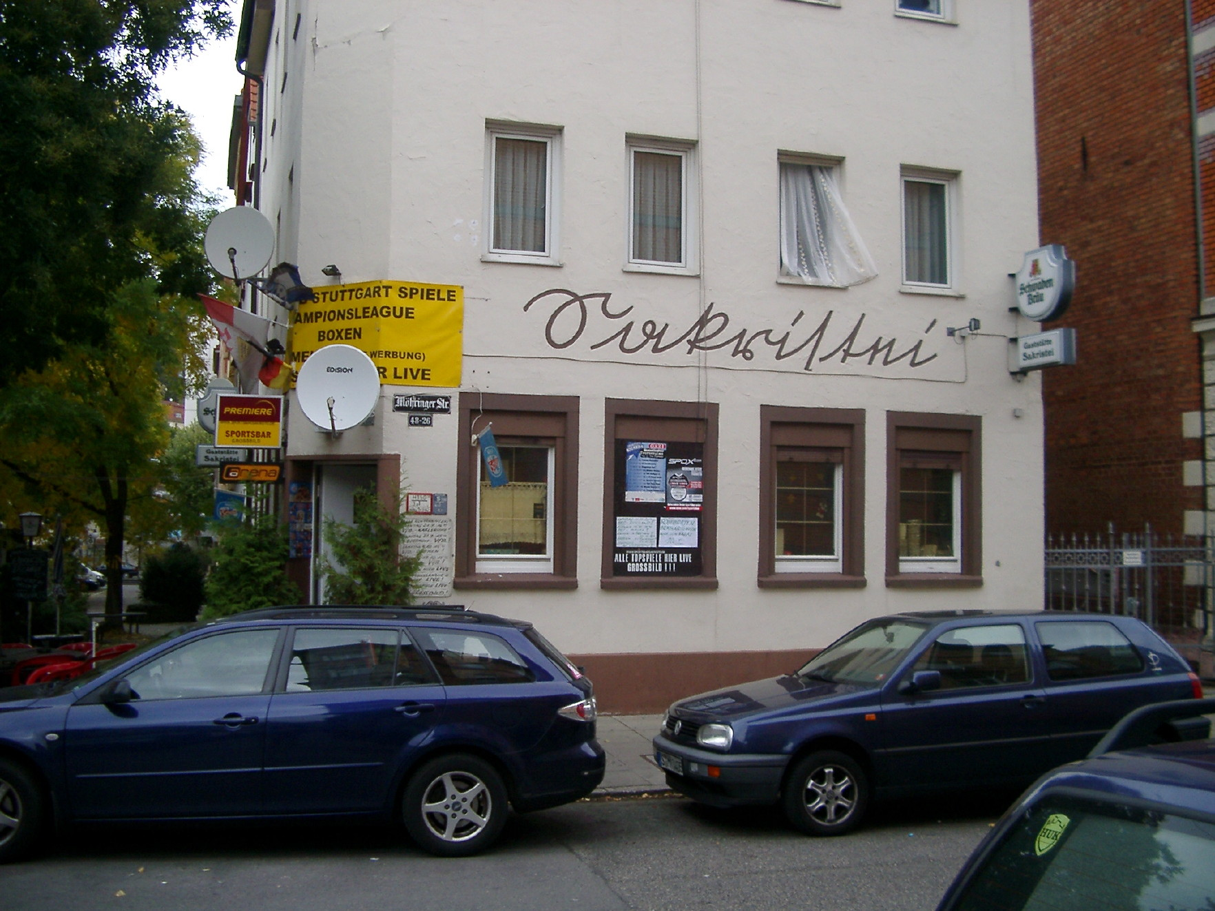 Locality at Stuttgart Möhringer Str. name "Sakristei" in Sütterlin-font.